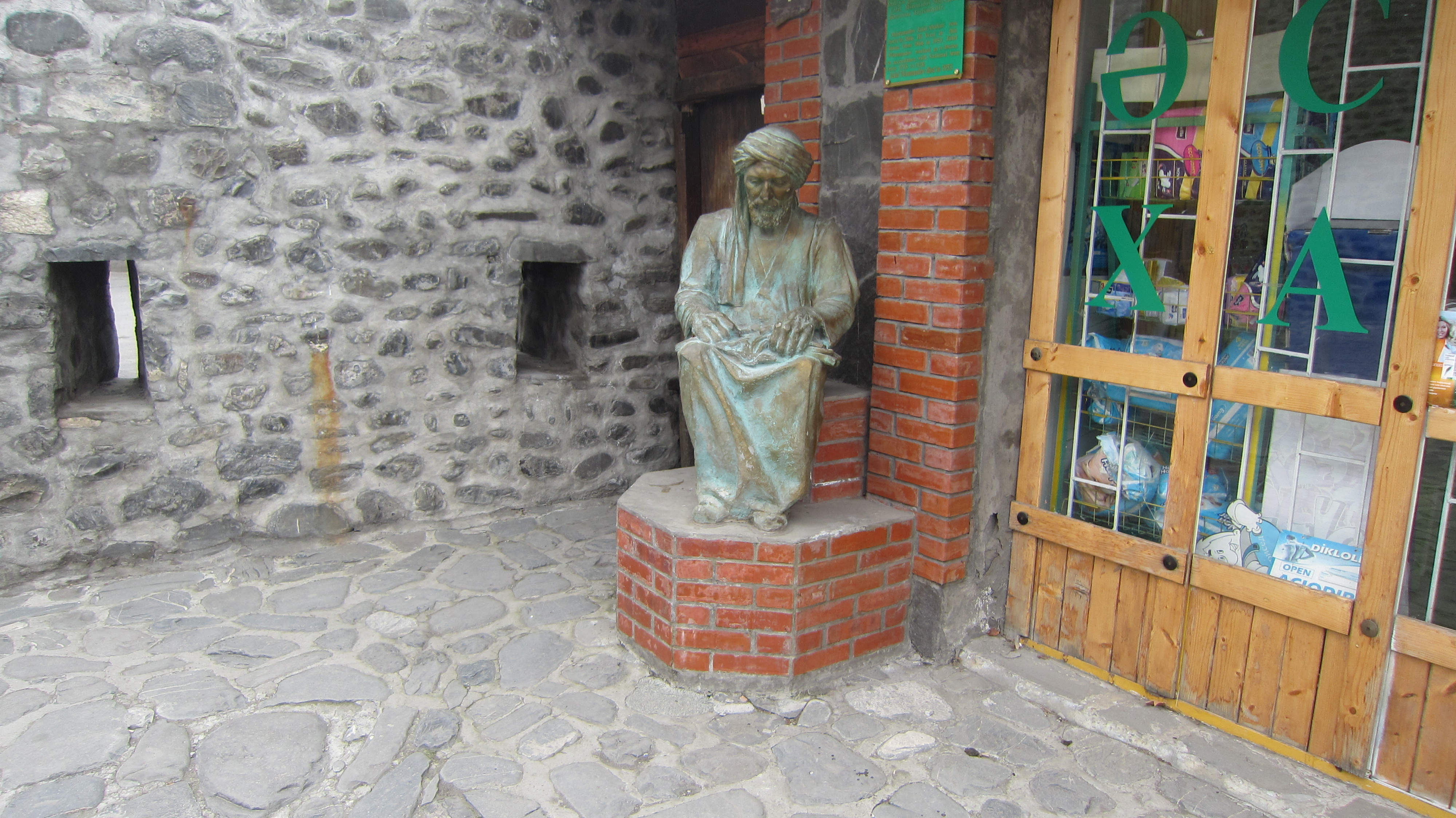 İbn Sinanın Qaxdakı heykəli